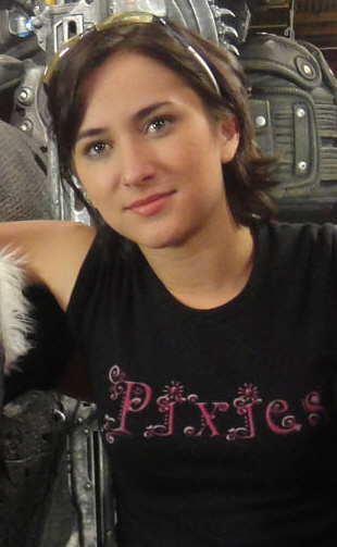 Noobz Movie Shoot - the Pixies, rival gamer girls, featuring Zelda Williams and India Oxenberg photo 2011 taken by Doug Kline If you're interested in higher resolution versions of my images, contact me via my profile page.